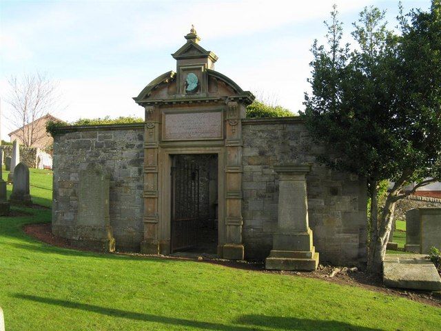 Burial enclosure of William and Robert Cullen The inscription above the entrance to the enclosure notes that it was erected in 1864 as a memorial to William by the Royal College of Physicians, Edinburgh, and his great granddaughter Marion Fenella Marjoribanks. He was born in Hamilton, Lanarkshire, in 1710, and died at Kirknewton in 1790. After an ‘apprenticeship’ in Glasgow, service as a ship's surgeon, and a period as assistant to an apothecary in London, he practised medicine from 1732 in various places in Scotland and in 1747 he was appointed to a Lectureship in Chemistry in Glasgow, and in 1751 to the Chair of Medicine. In 1755 he moved to Edinburgh and held the Chair until 1766. He then became Professor of the Institutes of Medicine (Physiology) and of the Practice of Medicine until his resignation in 1789. So he did not have much of a retirement. He was a man of great personal charm, a lively personality, very articulate, and with a rich imagination, so was a good lecturer. His contributions to medicine and his widely used textbooks earned him an international reputation. He was elected a Fellow of the Royal Society of London in 1777 [Information from a biography by W.P.Doyle on the University of Edinburgh’s School of Chemistry website]. Robert, Lord, Cullen, possibly a son [1742-1810], was, according to his plaque, ‘an eminent judge, elegant scholar, and accomplished gentleman’.